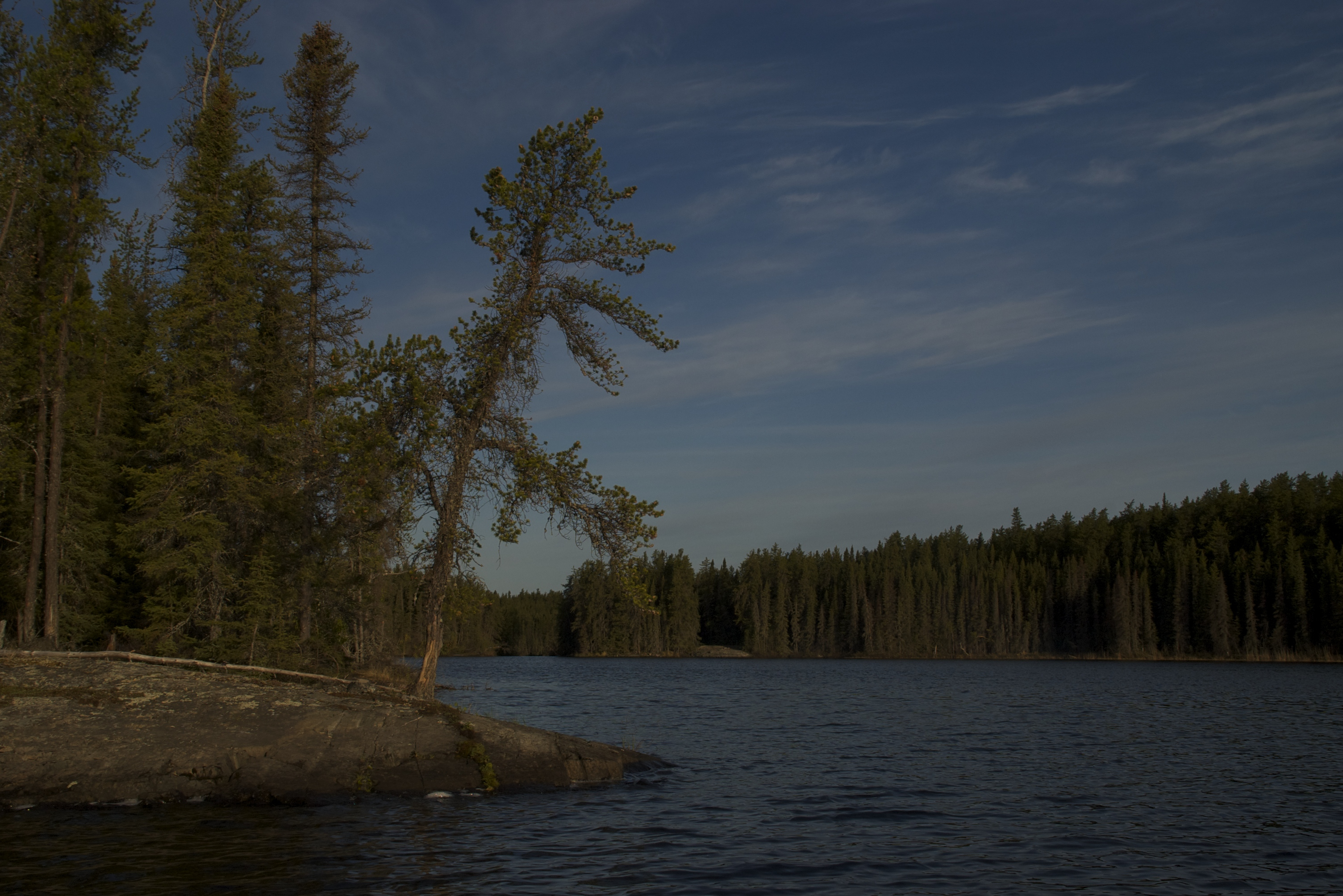 Part of the Mistik Creek chain